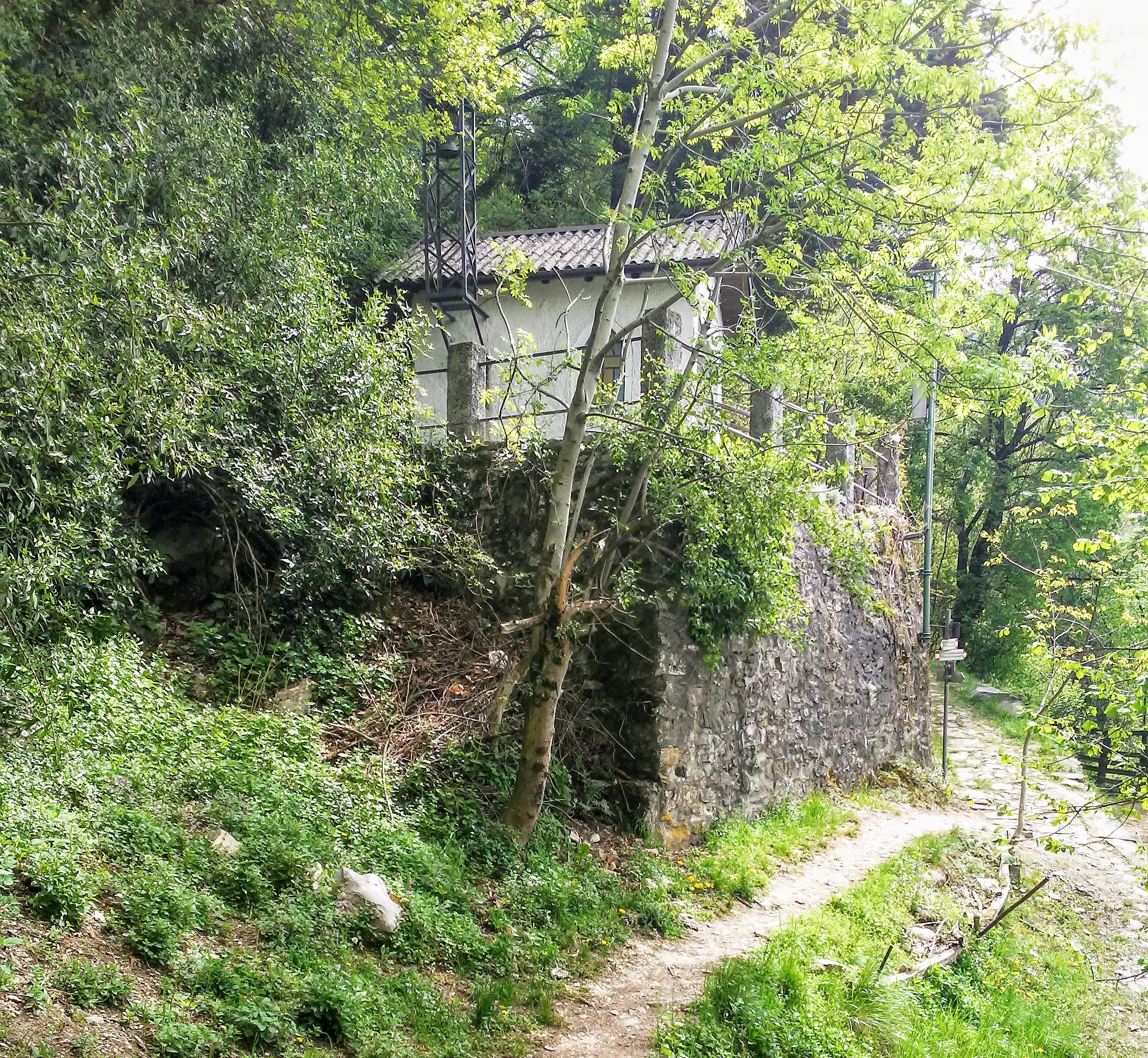 Madonna chapel in Blevio